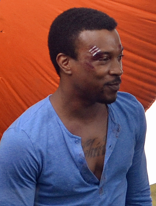 Ashley Walters filming Truckers in 2013